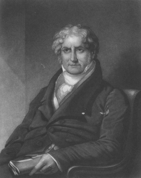 American composer and music publisher Benjamin Carr (1768-1831) by John Sartain (1808-1897) after John Clarendon Darley (1808-1863).